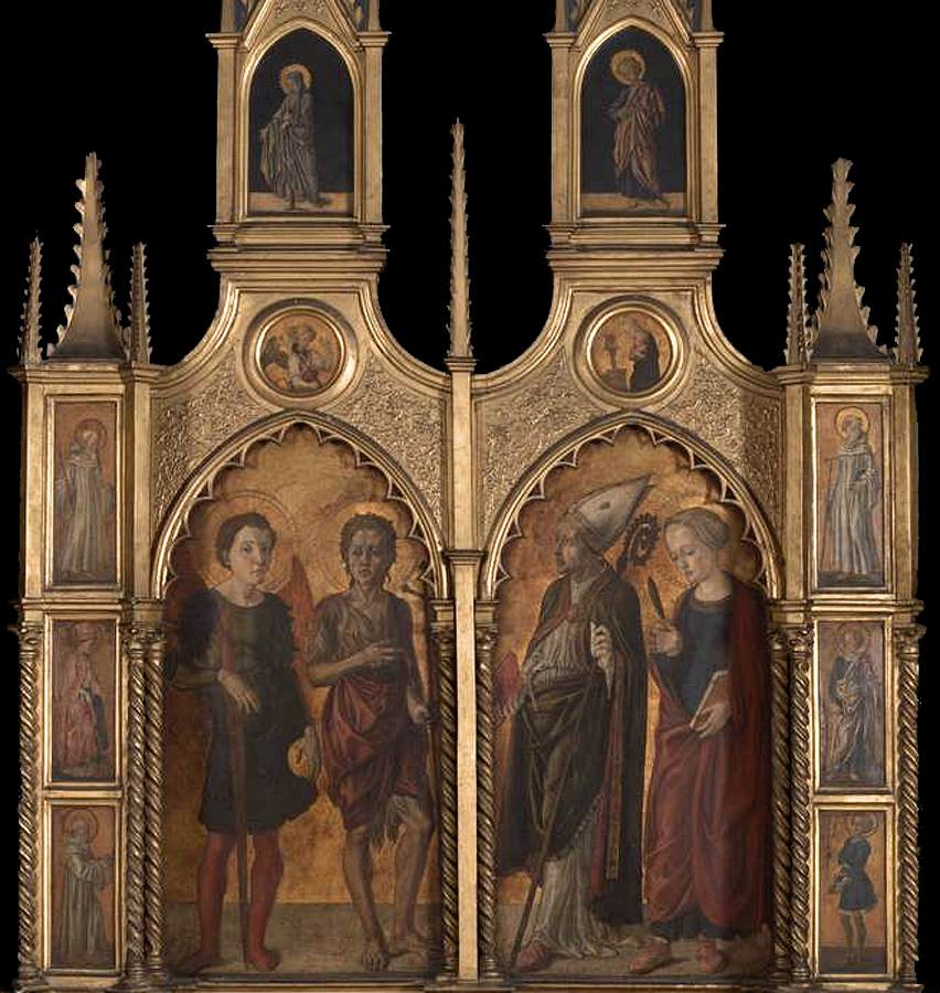 lateral panels